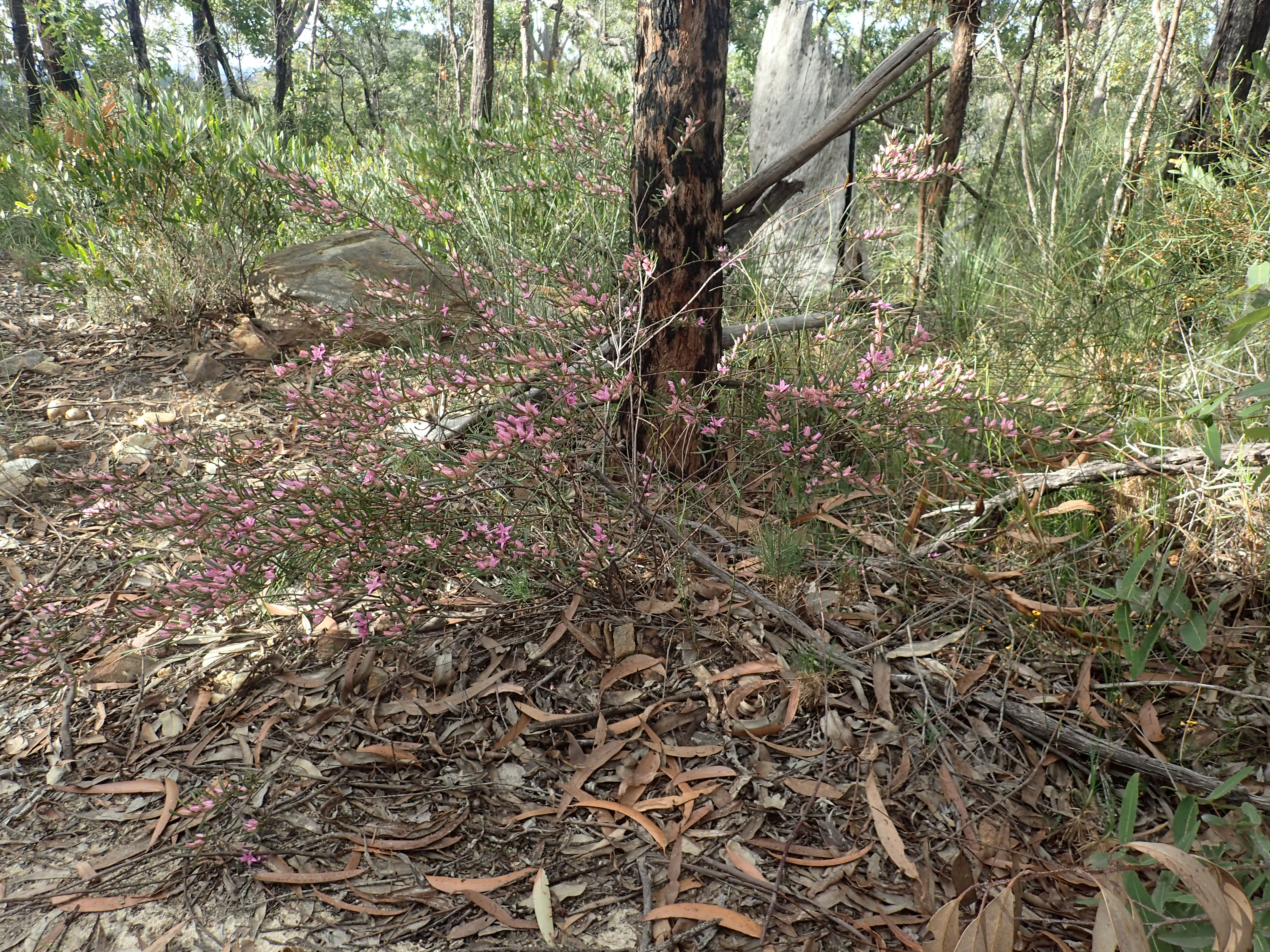 Boronia hapalophylla growing near Sherwood Road in the Sherwood Nature Reserve near Glenreagh